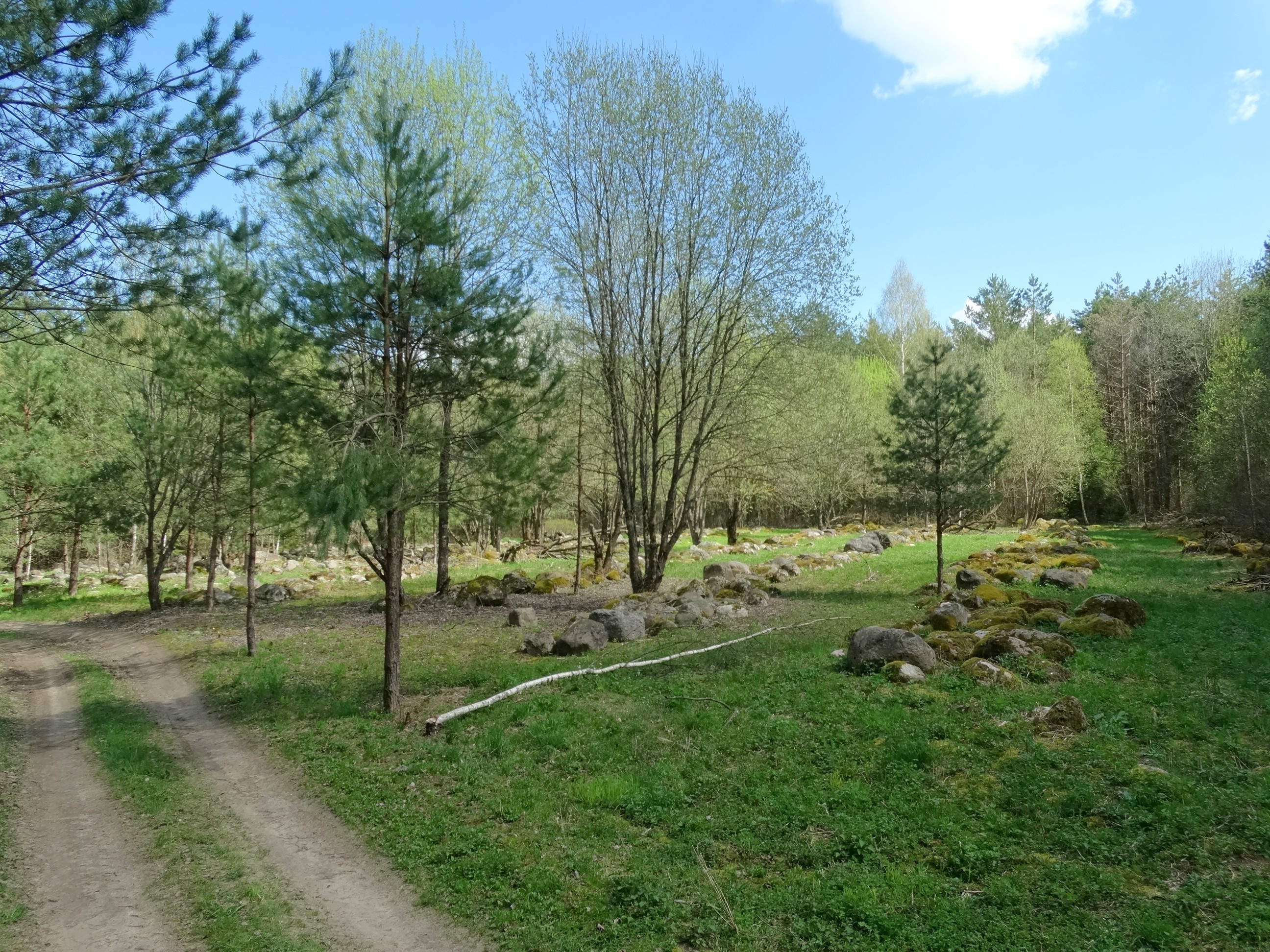 Heaps of stones by Rimašiai, Šalčininkai District, Lithuania